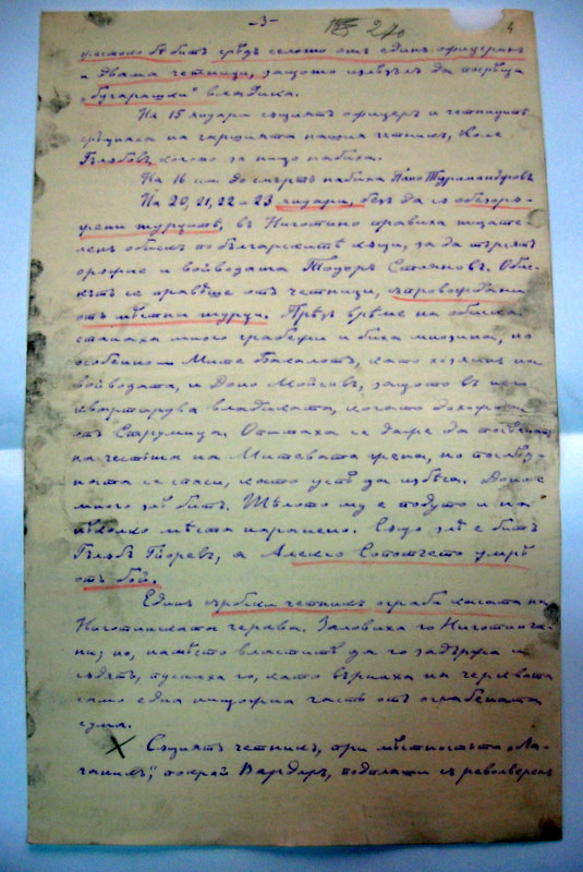 Report on the violence of Serb authorities in the Tikveš region following the Tikveš Uprising.